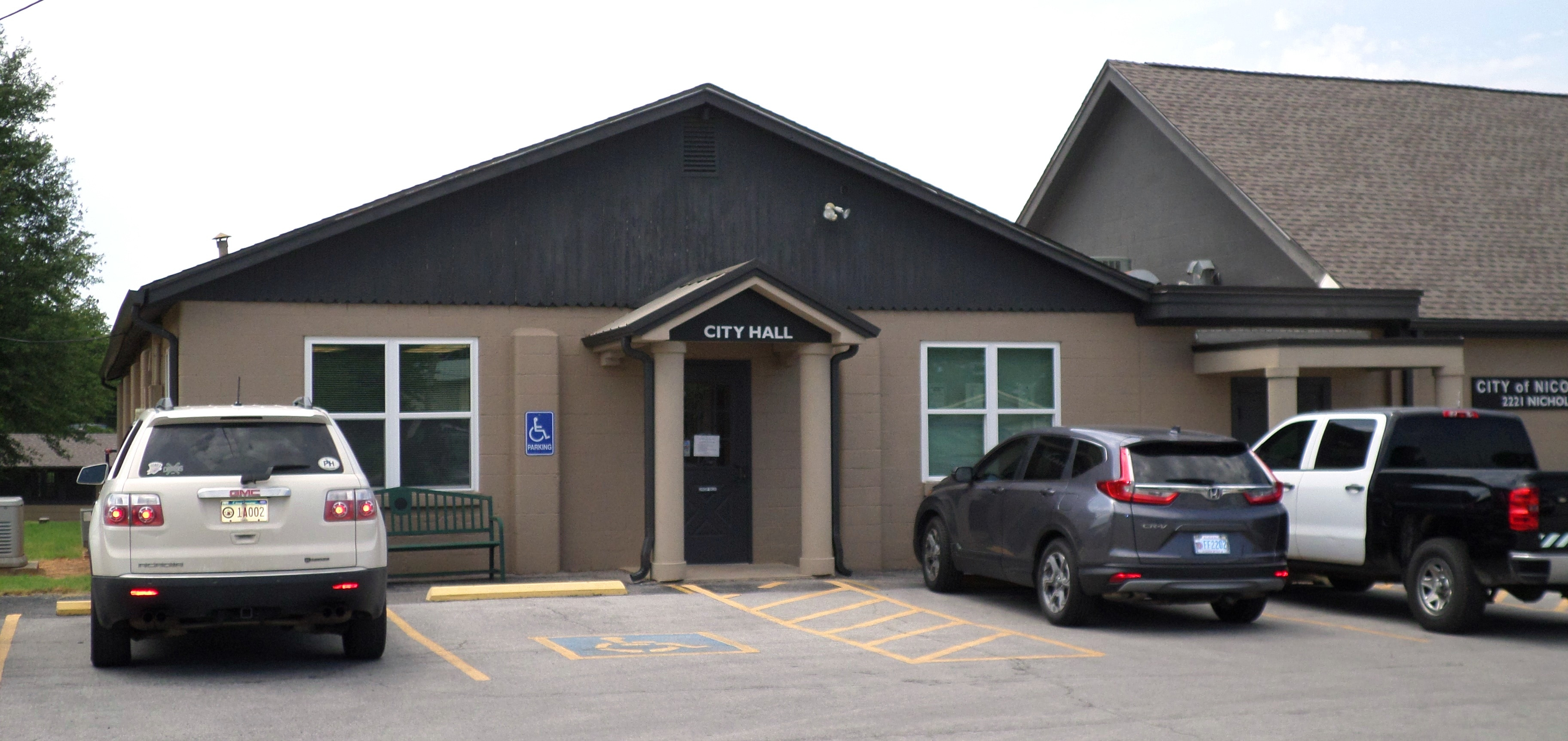 Nicoma Park City Hall, located at 2221 Nichols Dr., Nicoma Park, OK.